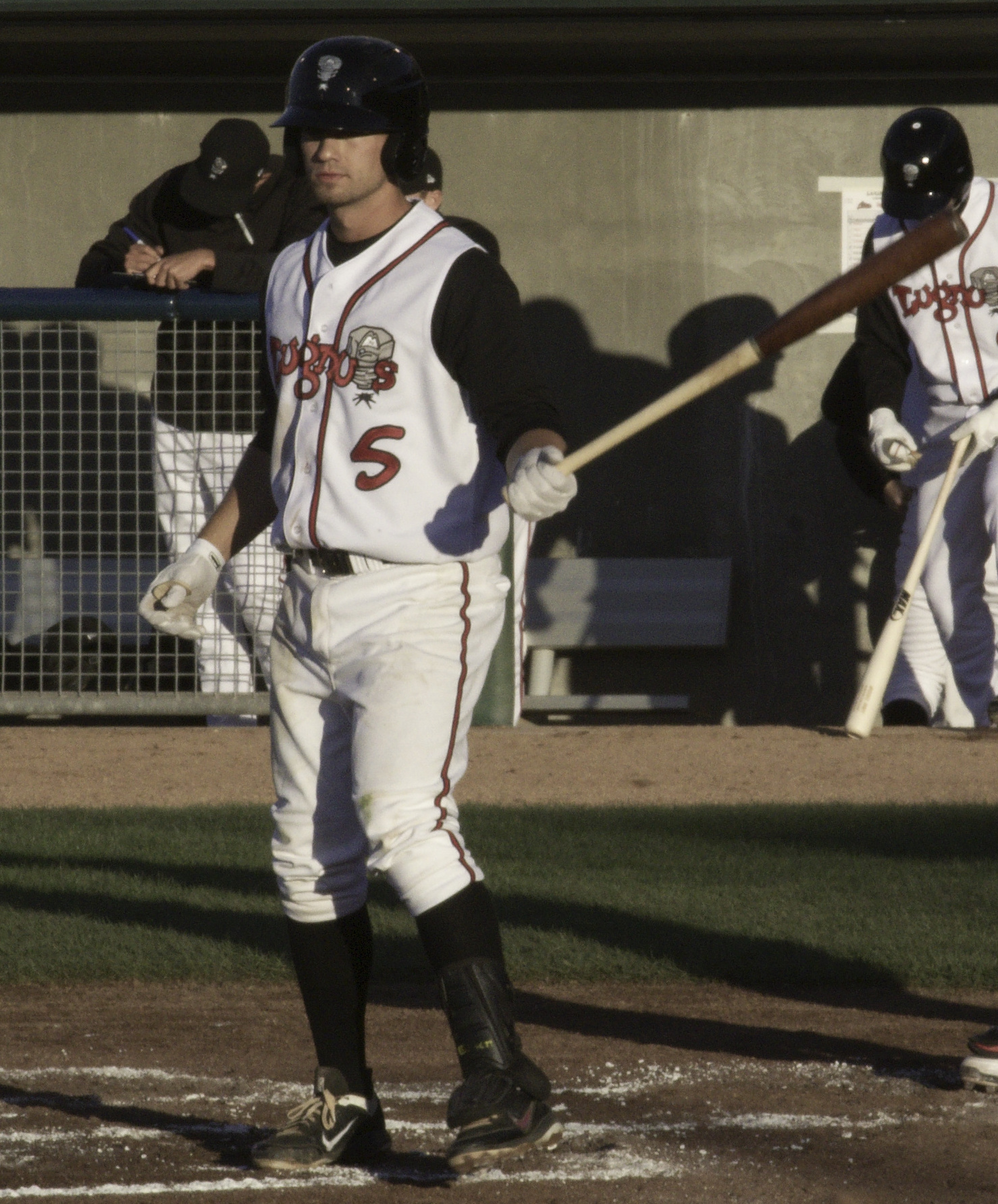 Jon Berti at bat for the Lansing Lugnuts during a 2012 game in Lansing, Michigan. Pratt Maynard catches for the Great Lakes Loons.